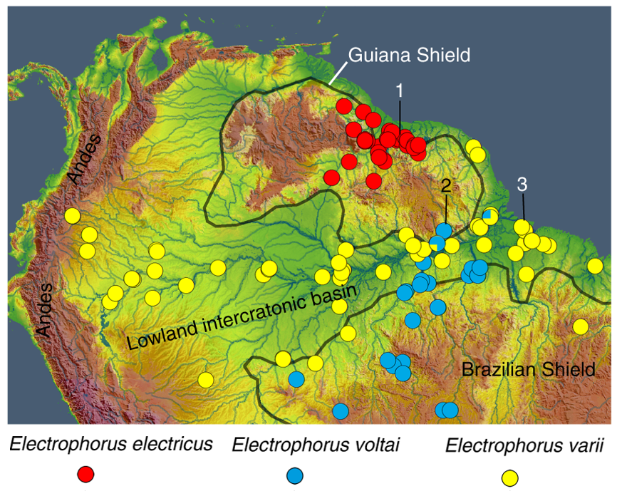 Sampling localities and gene trees for the three species of Electrophorus. a Map of northern South America showing distributions of sampled records and type localities (indicated by numbers) for three electric eel species: Electrophorus electricus (red dots, 1 = Suriname River, Suriname); E. voltai (blue dots, 2 = Rio Ipitinga, Brazil); and E. varii (yellow dots, 3 = Rio Goiapi, Brazil). Bicolor dots (blue/yellow) indicate sympatric co-occurrence of E. voltai and E. varii.